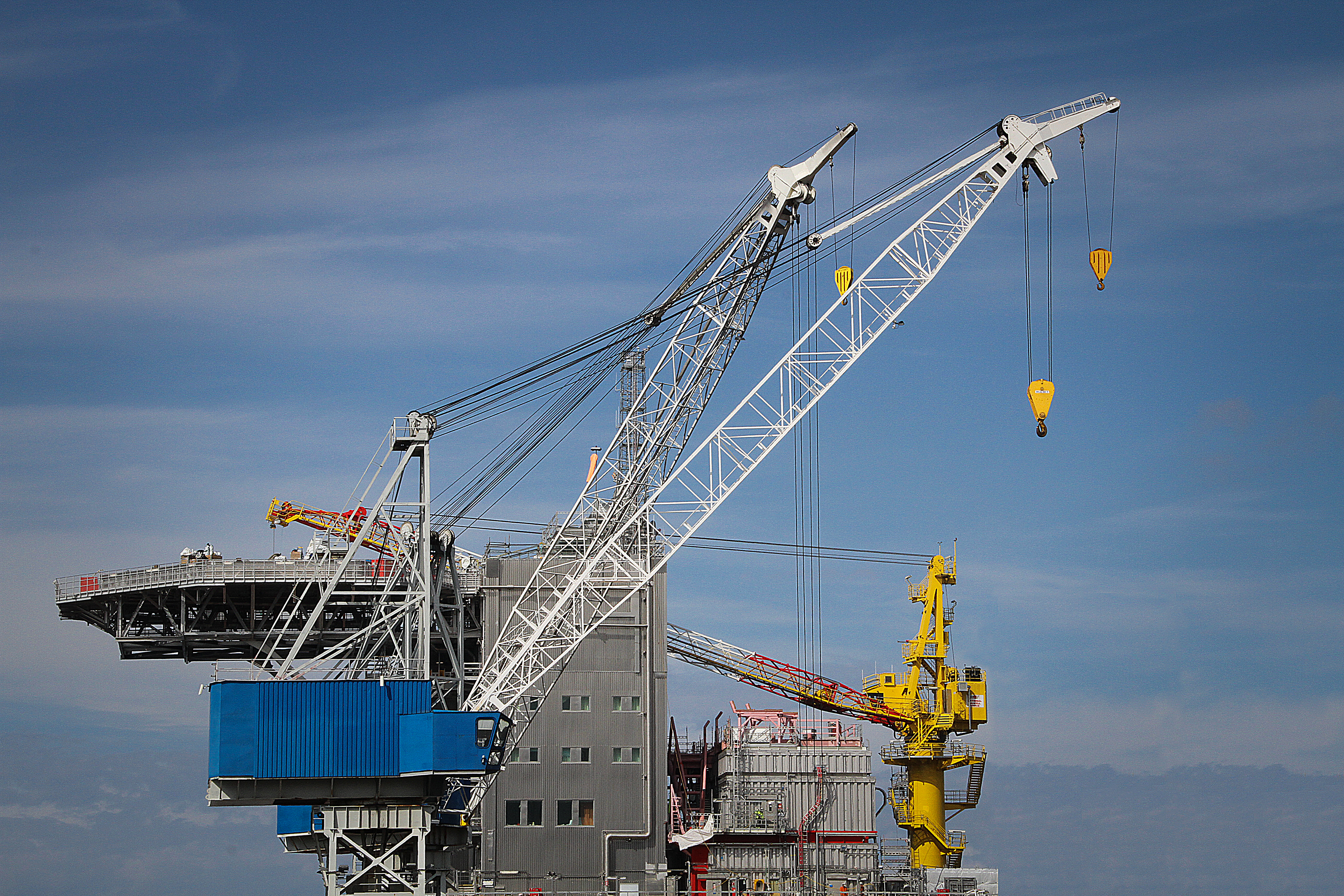 Statoil's Gudrun platform being built at the Aibel shipyard in Haugesund